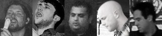 Straylight Run plays the Soundwave festival, Eastern Creek, New South Wales, Australia Author: Omar Otiniano Nationality: Peruvian Photo taken At: Marysville, CA